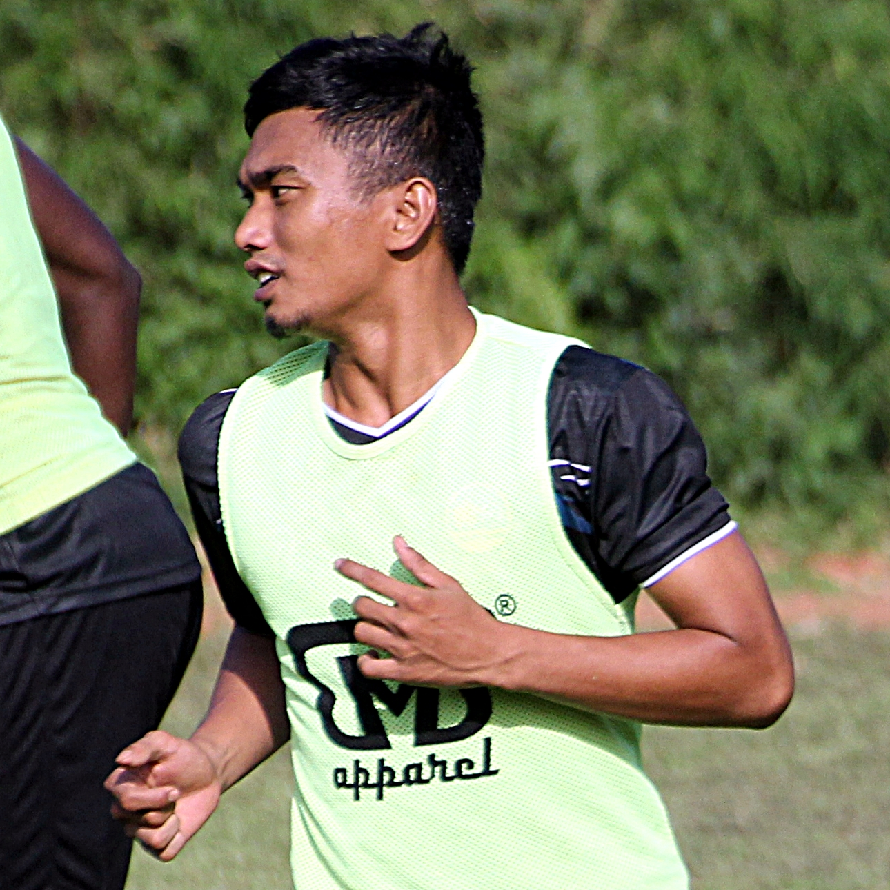 Munadi